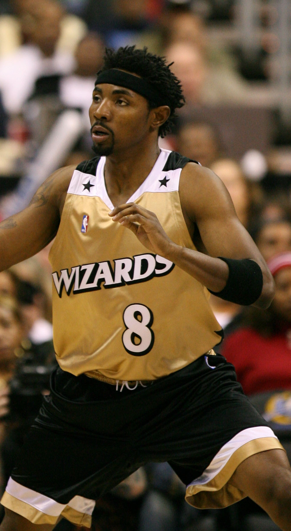 Roger Mason, Jr. of the Washington Wizards during a December 2006 game against the Houston Rockets